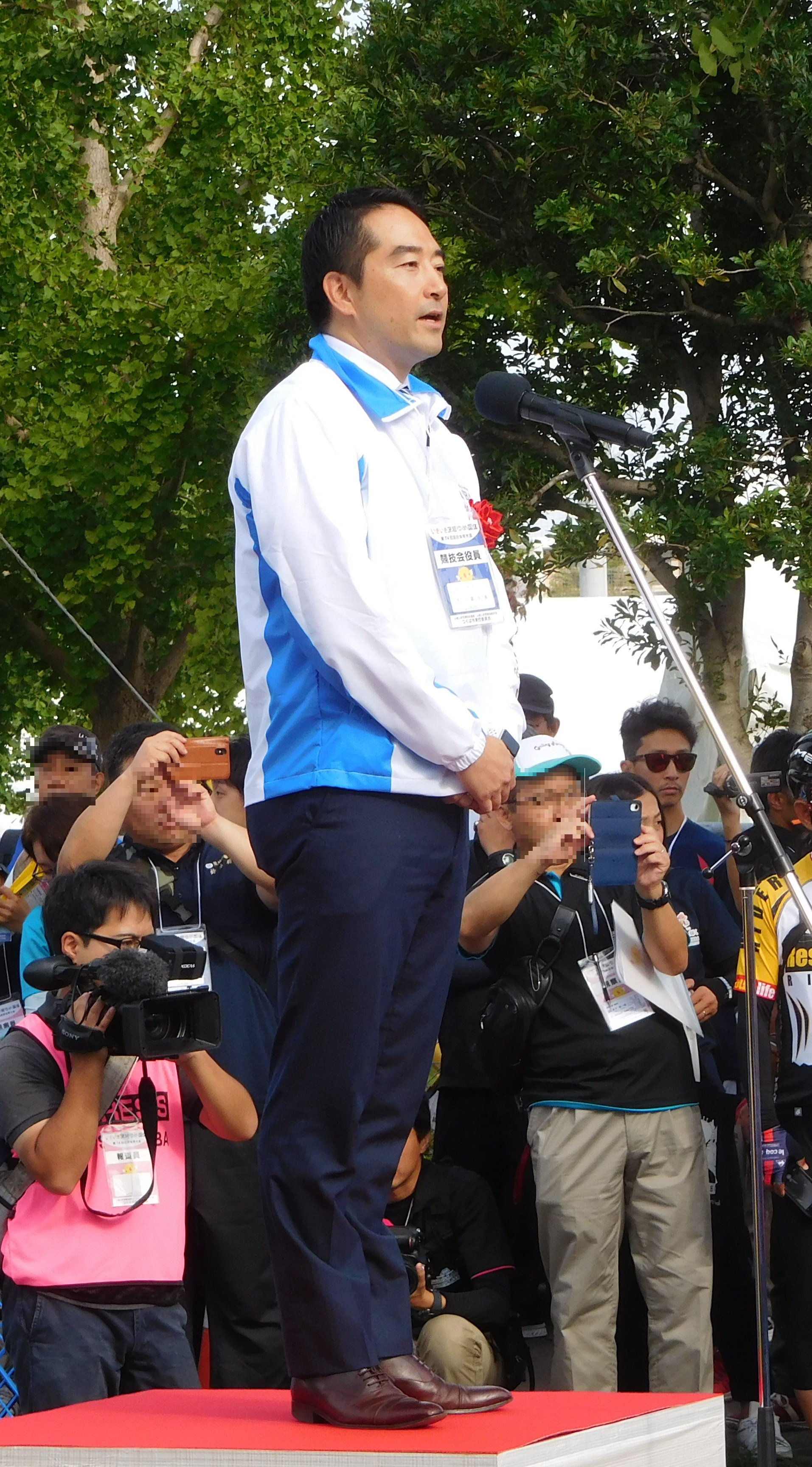 Road Cycling Competition at the 74th National Sports Festival of Japan. Mayor of Tsukuba city was greeting before the game began. He is IGARASHI Tatsuo.